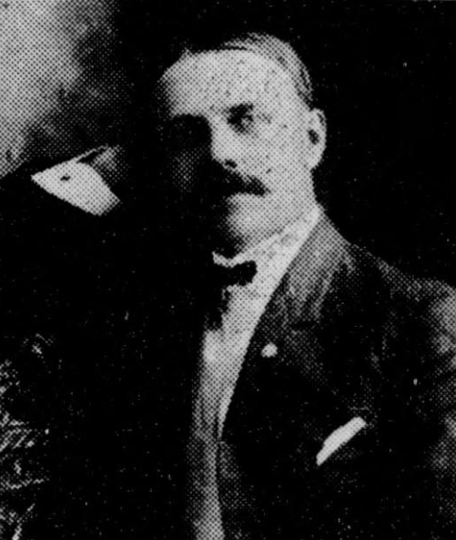 Seated photo of W.H. Turner, president of the Board of Councilman, Watts, 1909.